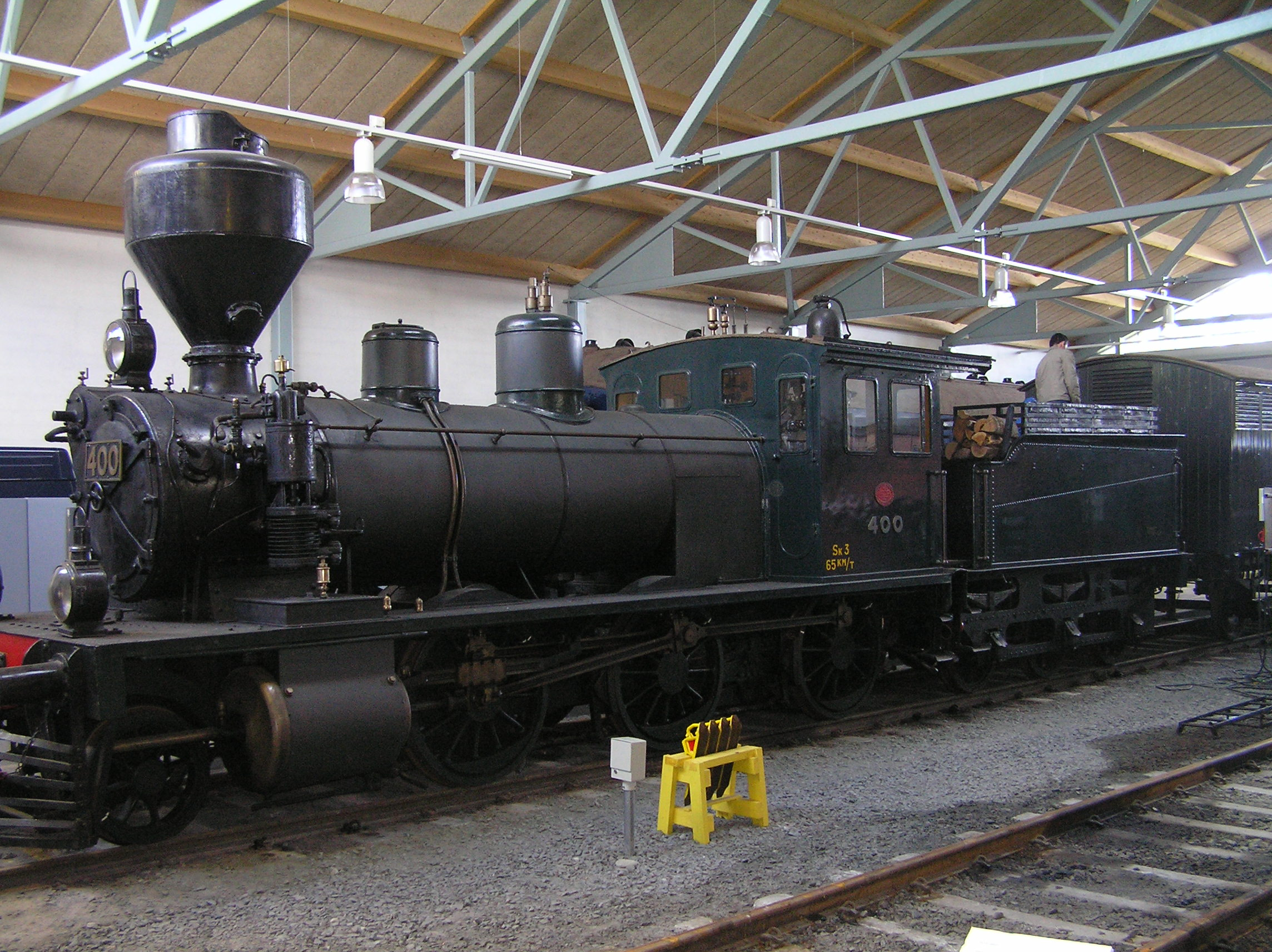 Sk3 2-6-0 No 400 locomotive in the Finnish Railway Museum. Built by Tammerfors in 1903